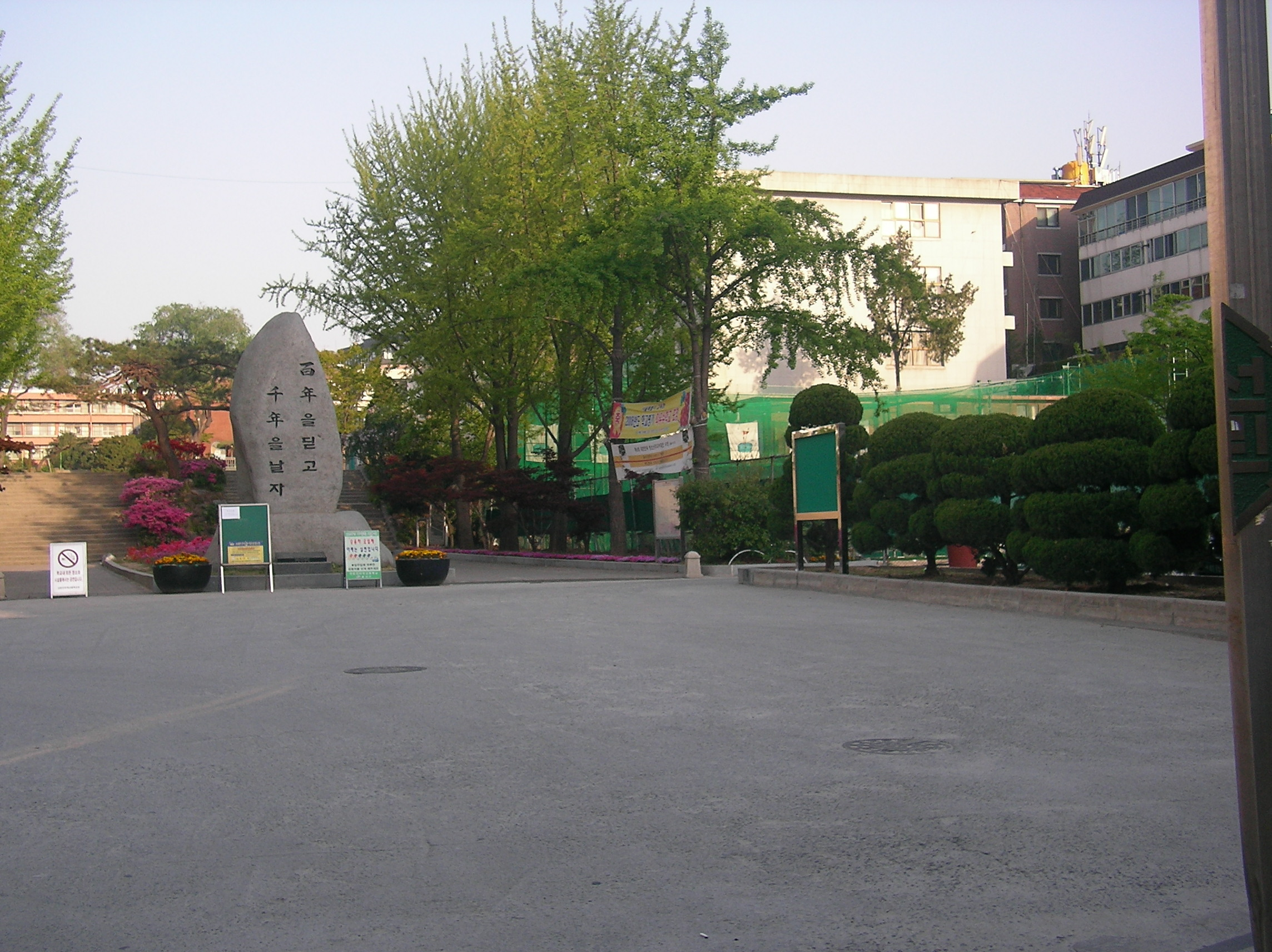 Sunrin Internet High Schoolko:선린인터넷고등학교